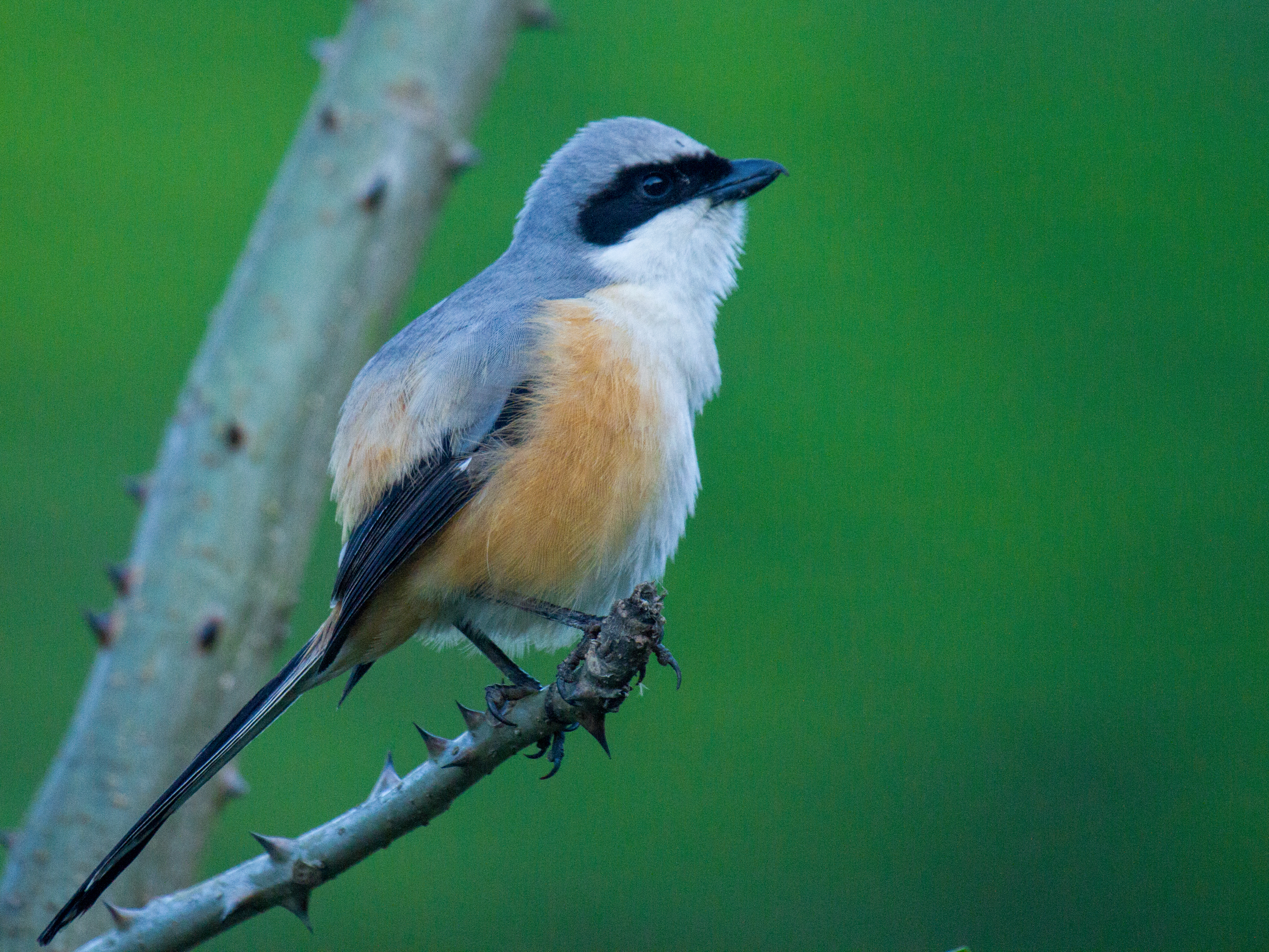 Rufous-backed Shrike or Long-tailed Shrike (Lanius schach caniceps).